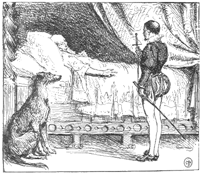 Illustration by H.J. Ford from the 1889 edition of 'The Blue Fairy Book' edited by Andrew Lang